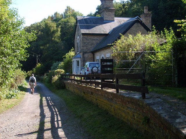 Linley Railway Station The disused Station at Apley Forge stands close to the river severn and the bridge leading to Apley Park.